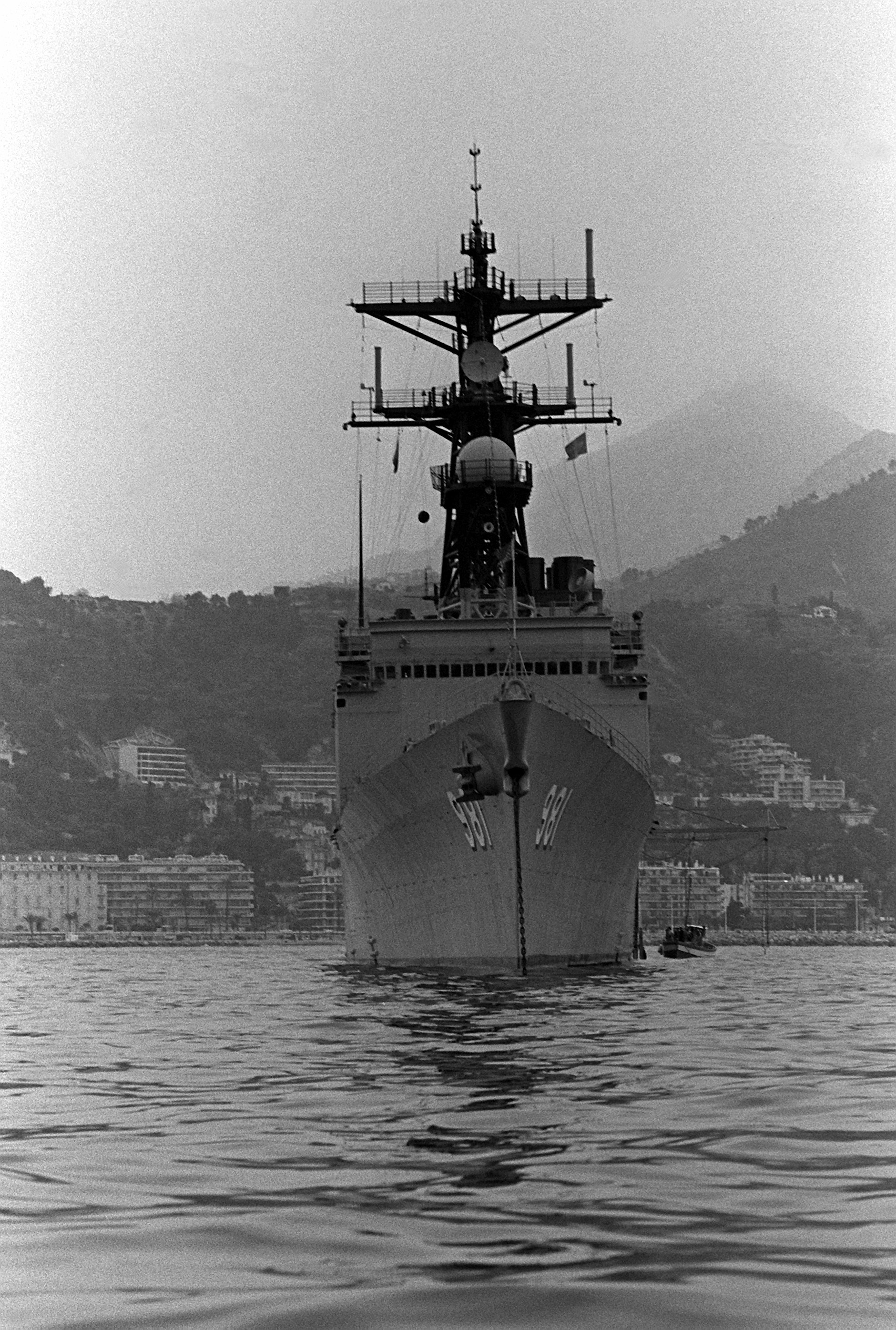 A bow view of the destroyer USS JOHN HANCOCK (DD-981) anchored during a port visit.